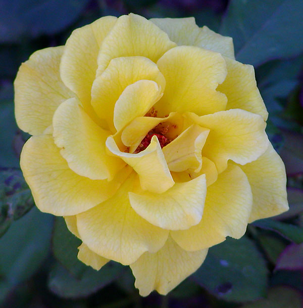 Photo of Rosa 'Henry Fonda' in Las Vegas